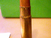 A split 35 Remington case neck caused by "season cracking." The case had been polished with Brasso which contains ammonia, and then stored in high humidity for several years.